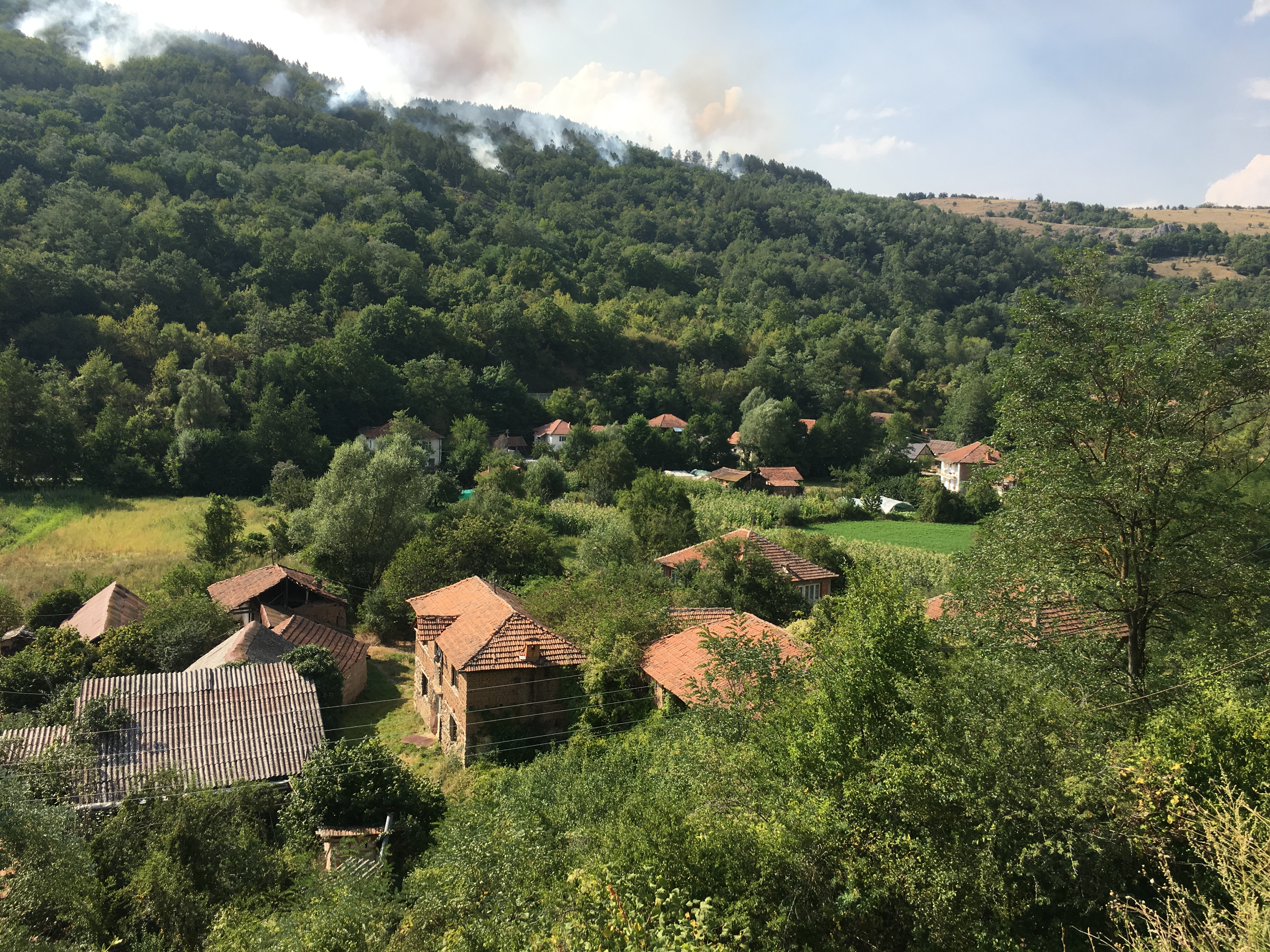 A view of the village of Openica